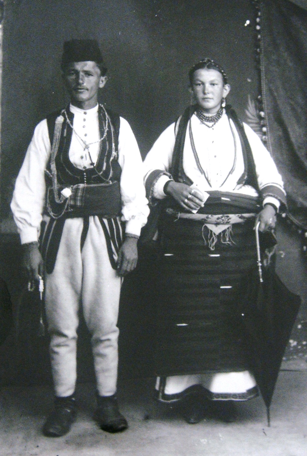 Couple of Demir Hisar, dressed in folklore costume, photographed in the studio of the brothers Manaki in Bitola, 1916 This media file is produced by Wikipedian in Residence in Category:Wikipedian in Residence at DARM in 2016.